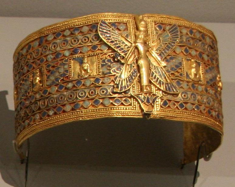 Jewellery of Amanishakheto from her pyramid at Meroe with a depiction of the goddess Mut